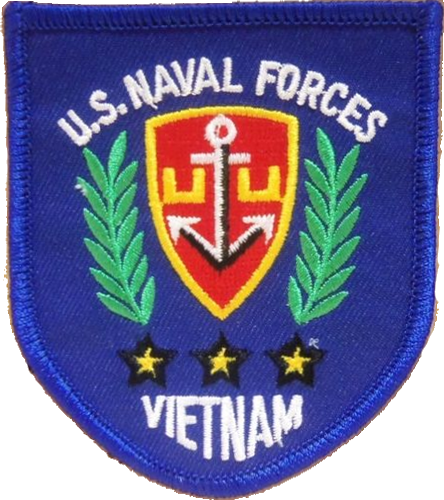 Patch of Naval Forces, Vietnam